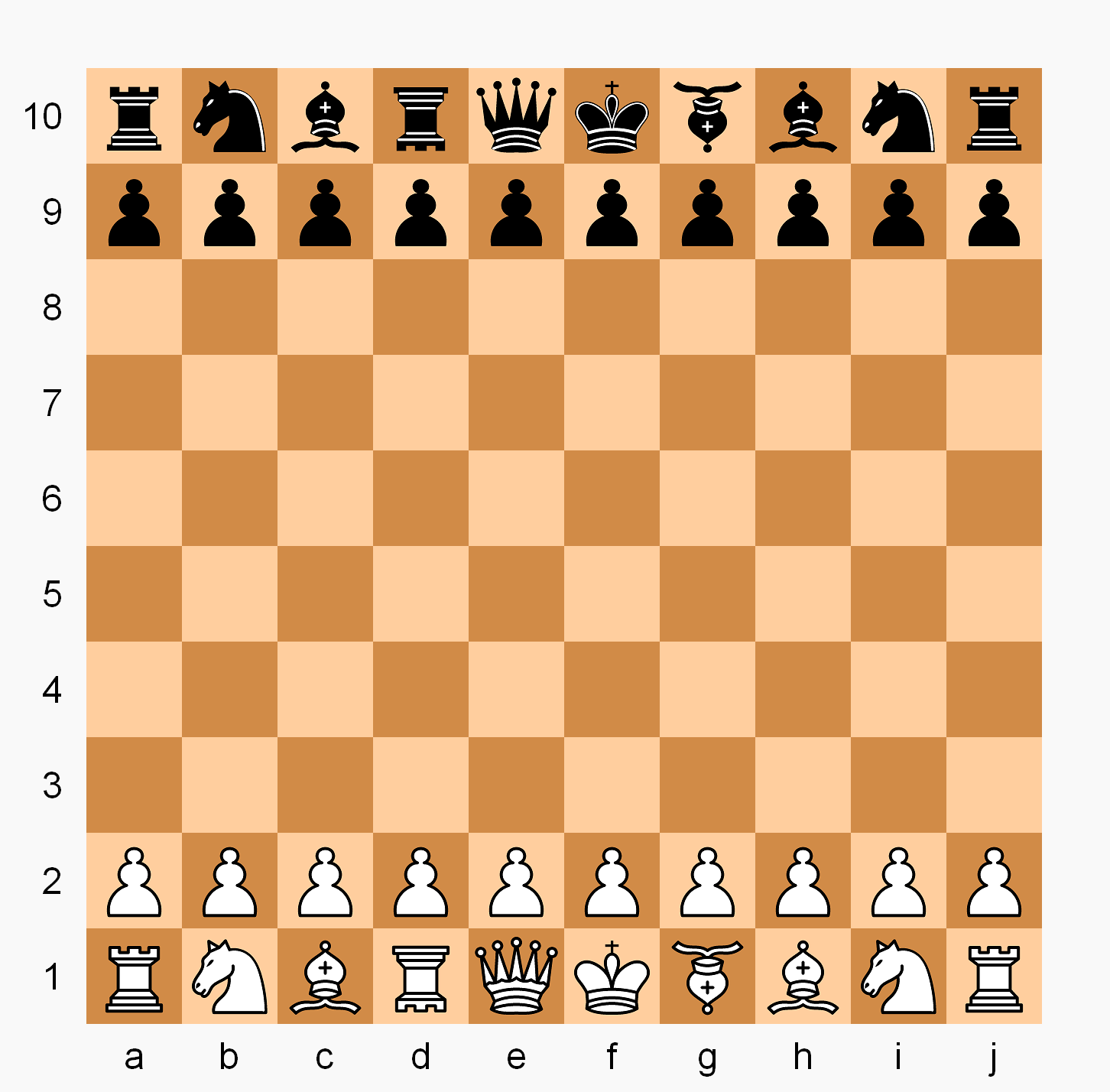 Using the great free-use chess icons fashioned by David Benbennick (User:Dbenbenn). All done in MSPAINT.